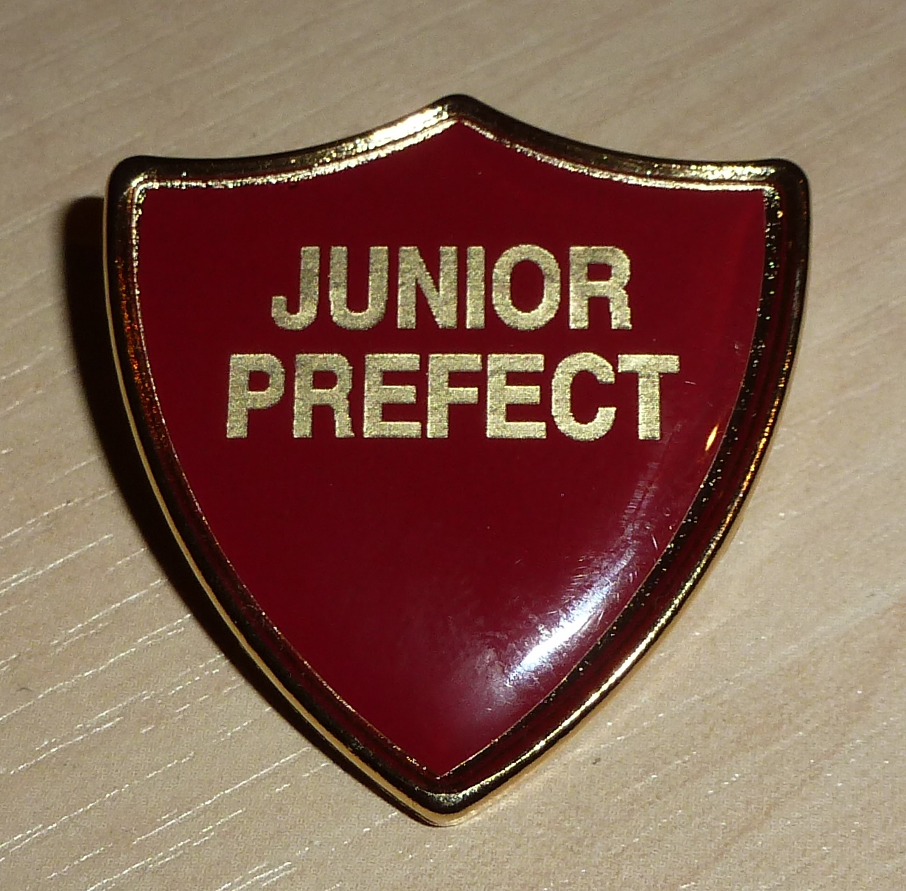 Photo taken myself